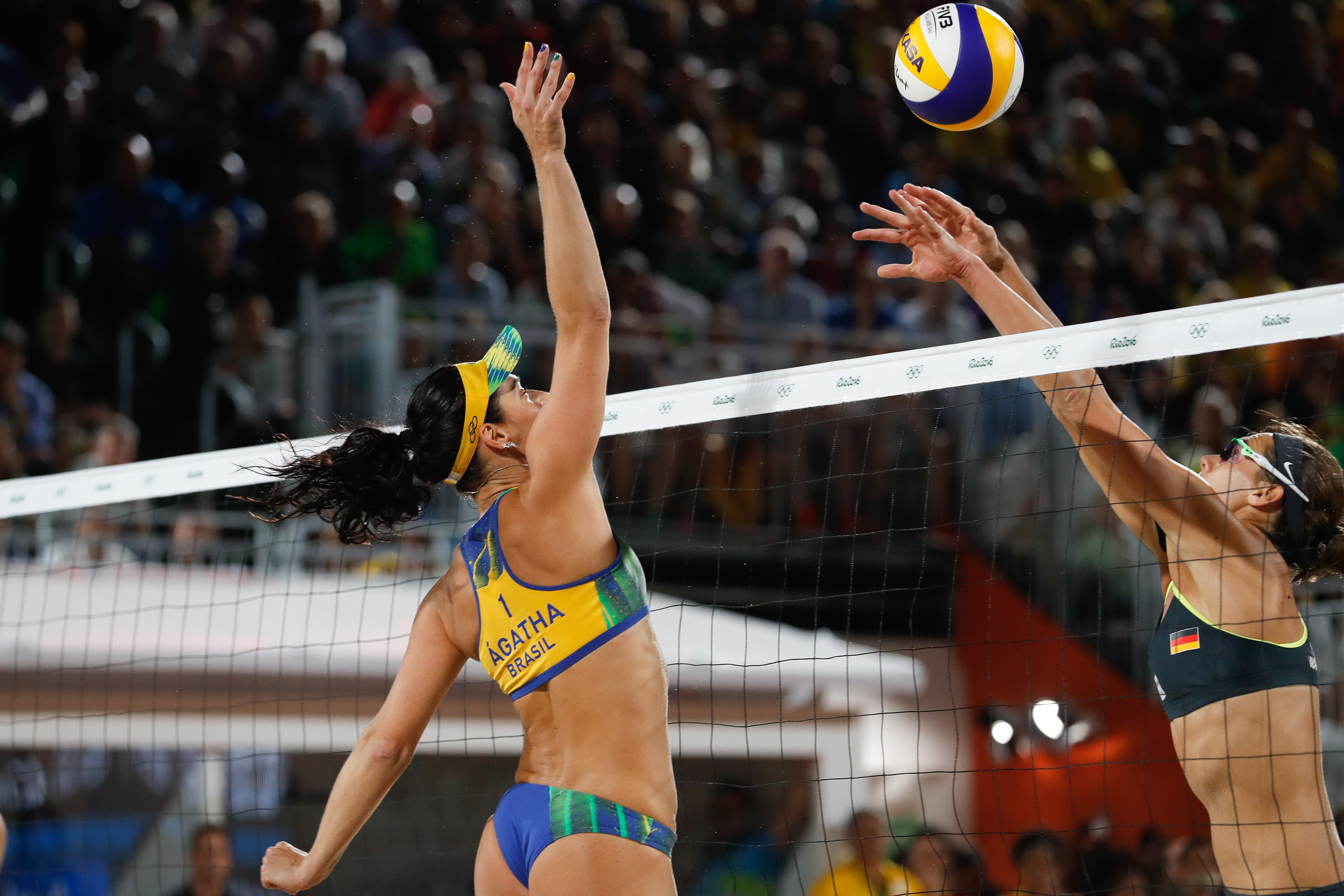 Rio de Janeiro - As alemãs Ludwig e Walkenhorst, levam ouro na final do vôlei de praia, contra as brasileiras, Ágatha e Bárbara, nos Jogos Olímpicos Rio 2016 ( Fernando Frazão/Agência Brasil)